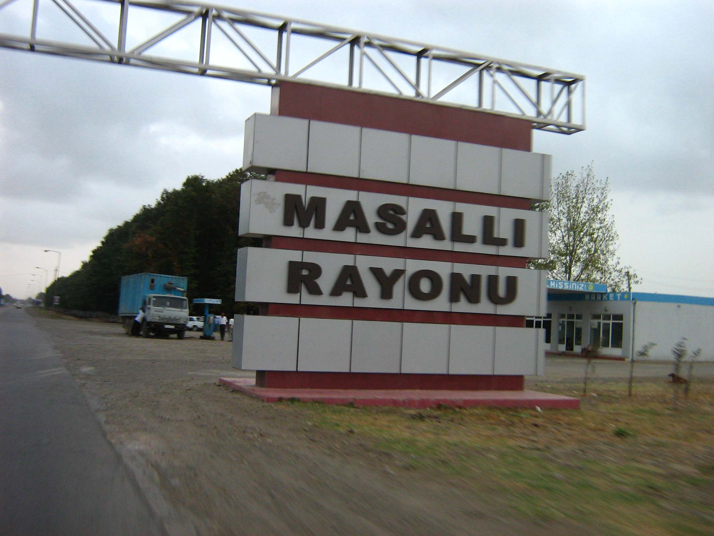 Road sign at the entrance to Masalli rayon, Azerbaijan